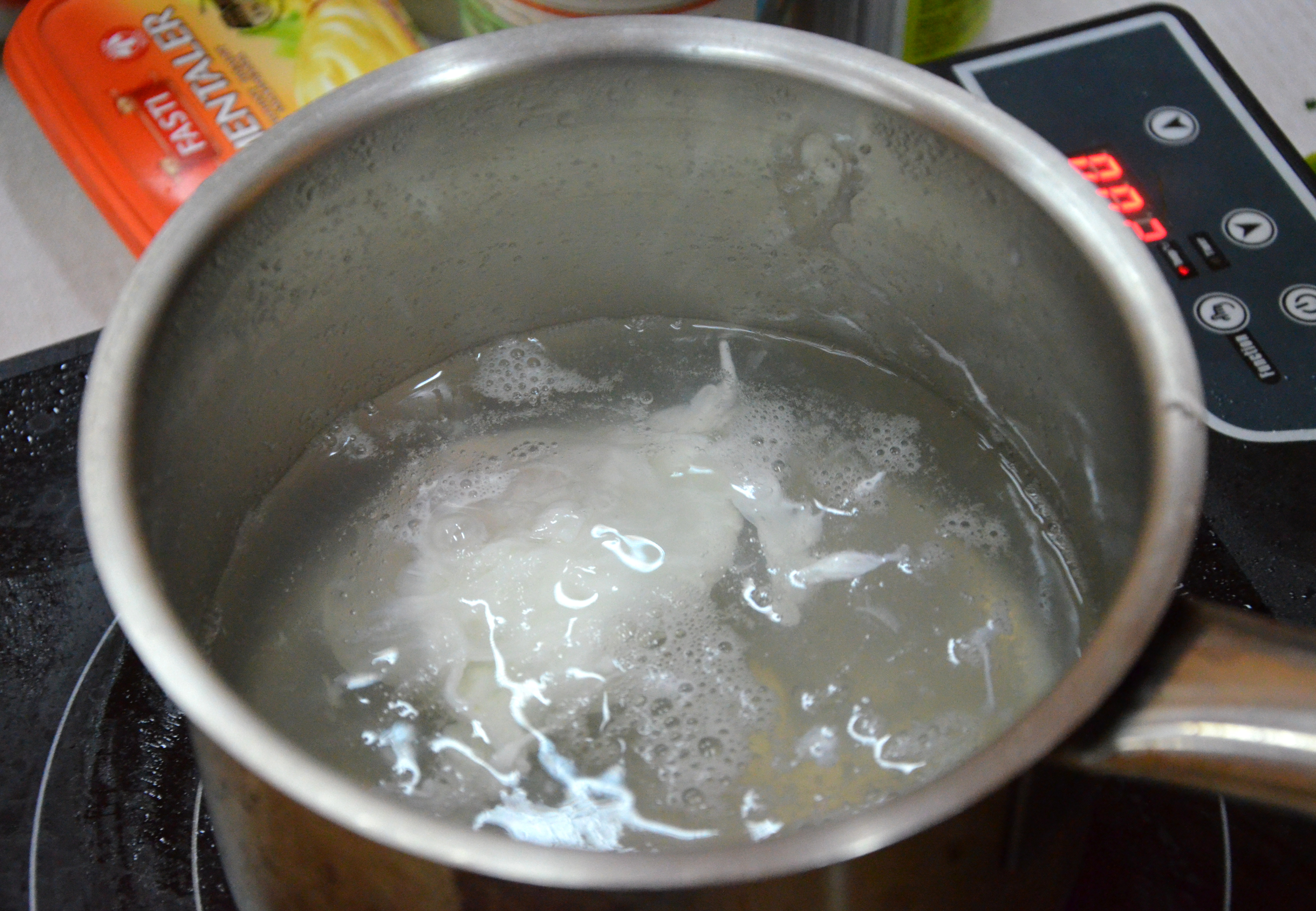 Poached eggs